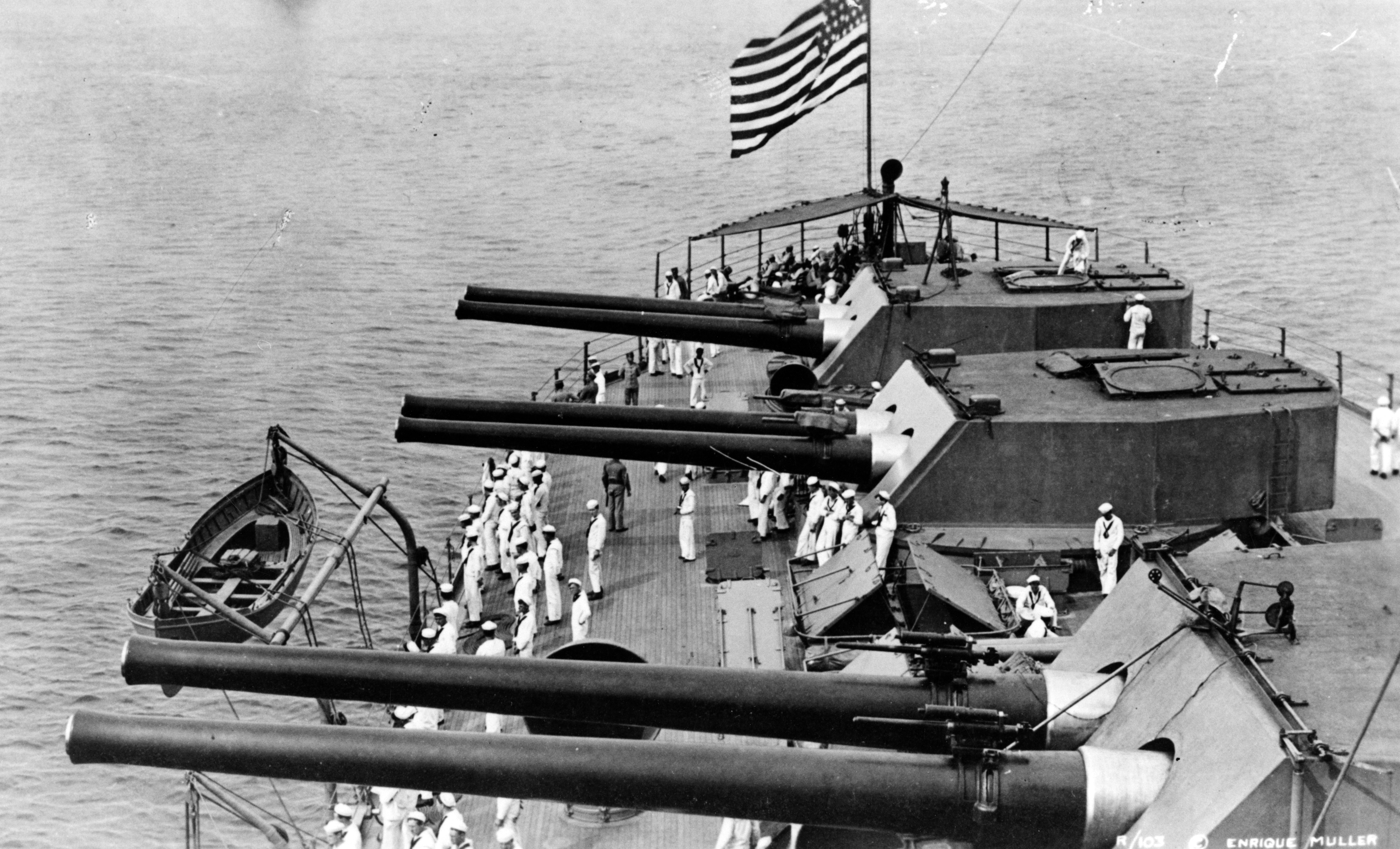 Ship's after three 12/45 twin gun turrets, circa 1913. Photographed by Enrique Muller. Note the sub-caliber spotting rifles mounted on the barrel of each heavy gun, gunsight practice gear fitted across the top front of each turret, and whaleboat swung out on davits. U.S. Naval History and Heritage Command Photograph.